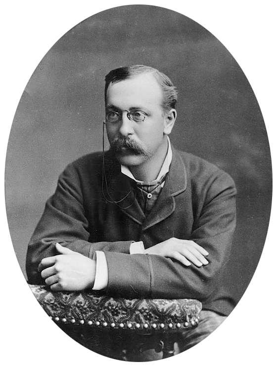 NH 65444 Lieutenant Commander George Washington DeLong, USN. Image taken from the US Navy historical image library (